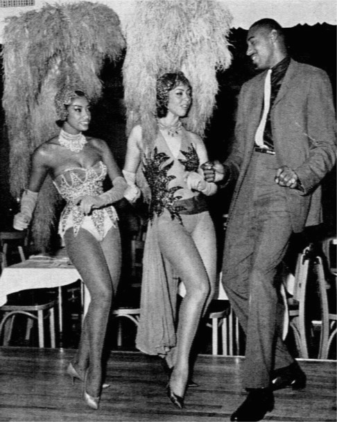 Photo of Wilt Chamberlain doing the Twist with 2 dancers from the Idlewild Review show at Smalls Paradise. Chamberlain was the owner of Smalls at the time.